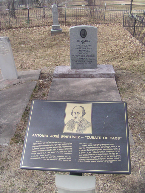 photo by Einar Einarsson Kvaran aka Carptrash 16:33, 4 August 2006 (UTC). The Padre Martinez grave, or at least memorial, in Taos New Mexico.